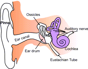 human ear anatomy with detailed diagram